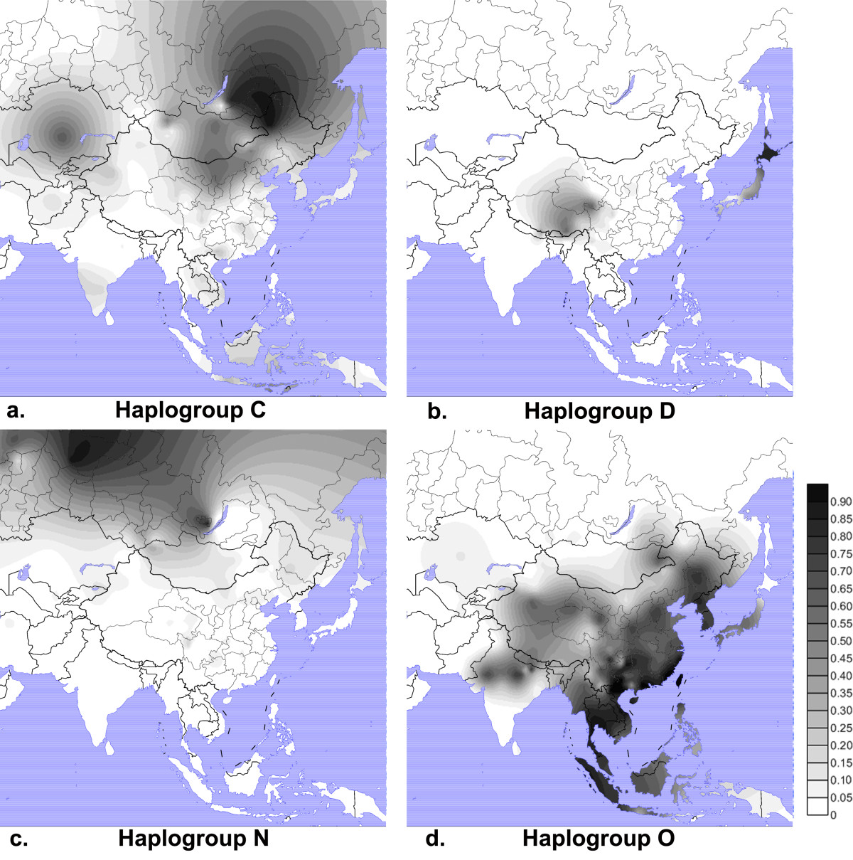 Geographic distributions of Y chromosome haplogroups C, D, N and O in East Asia. There are four dominant Y chromosome macro-haplogroups in East Asia - O-M175, C-M130, D-M174 and N-M231 - accounting for about 93% of the East Asian Y chromosomes. The other haplogroups, such as E-SRY4064, G-M201, H-M69I-M170, J-P209, L-M20, Q-M242, R-M207 and T-M70, comprise roughly 7% of the males in East Asia. Haplogroup O-M175 is the largest haplogroup in East Asia, comprising roughly 75% of the Chinese and more than half of the Japanese population.